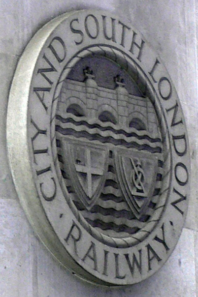 Arms of the City and South London Railway, the world's first deep tube railway and first major electric railway opened in London in 1890. The railway is now part of the London Underground's Northern Line. The arms incorporate, the arms of the City of London (bottom left) and the Southwark Cross (bottom right) representing the two parts of the city connected by the railway. The wavy bars represent the River Thames under which the railway tunnelled and the bridge represents London Bridge, close to which the tunnels ran. Image cropped from the original: Image:James Henry Greathead statue by Bank tube station.jpg photographed by User:Justinc.